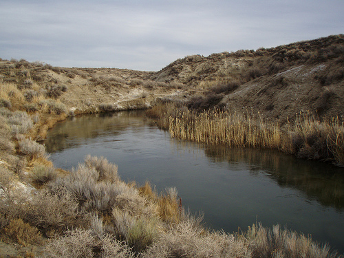 Upper Ana River habitat near Summer Lake, Oregon